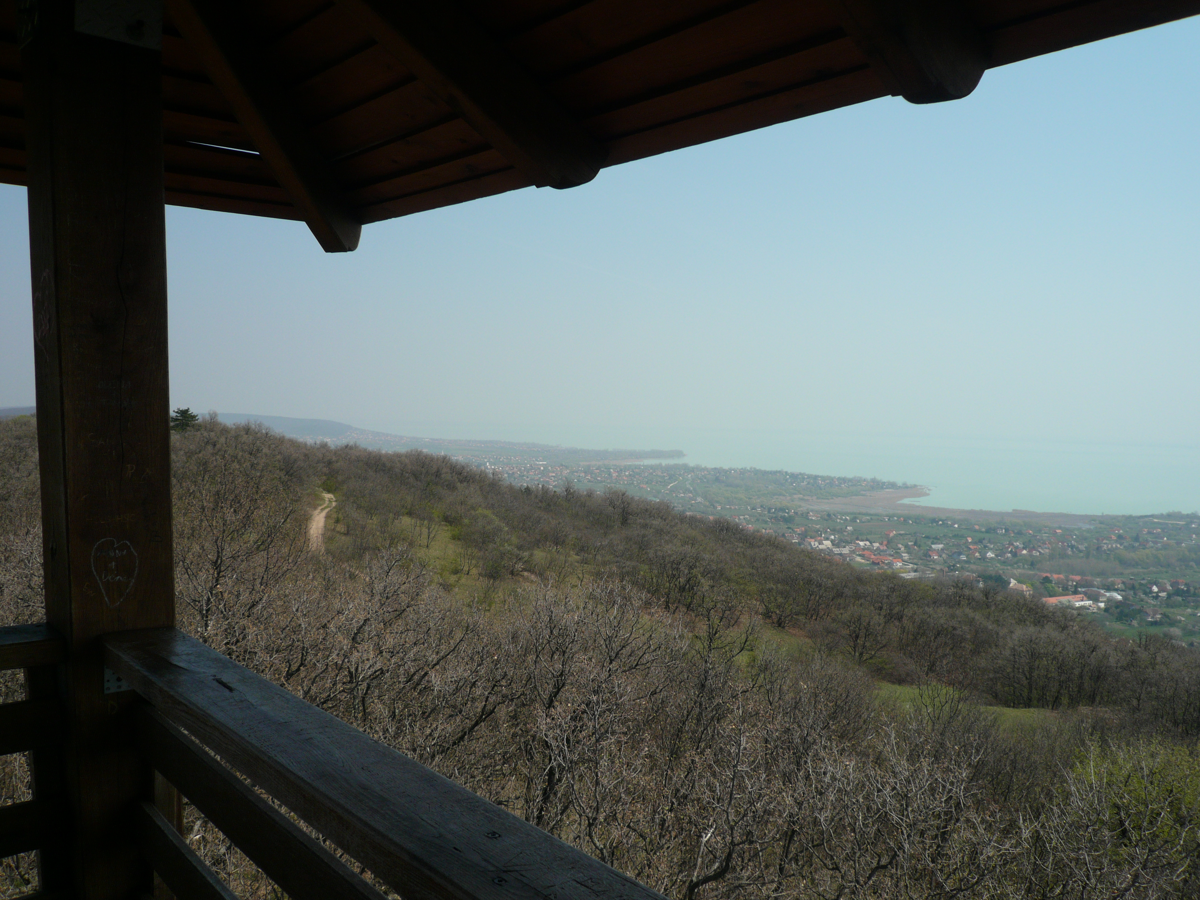 Panorama from Tamás-Hegy mountain, Hungary